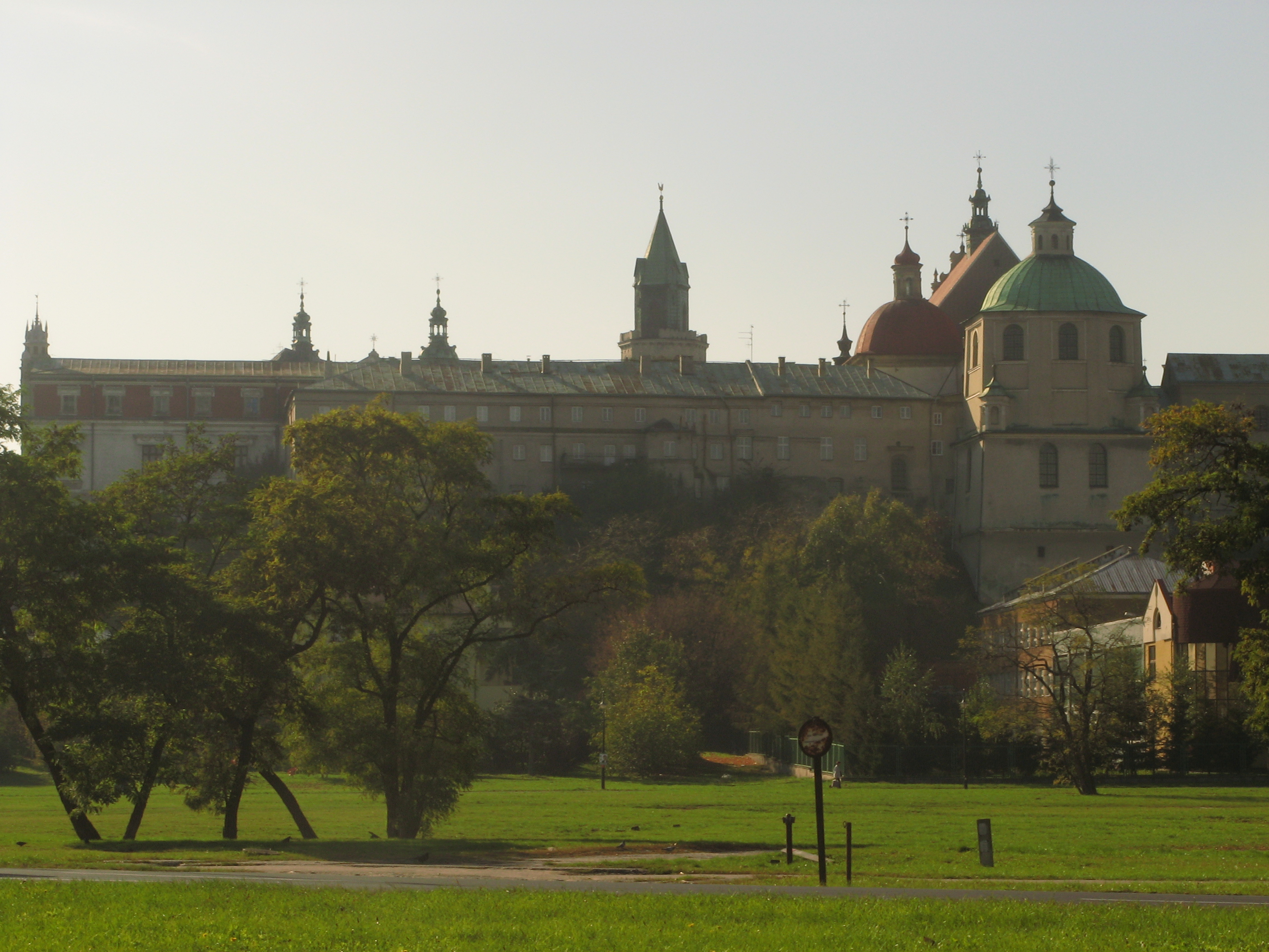 H. Ch. Andersen Theatre and the Dominican Church in Lublin